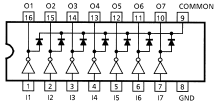 The ULN2003A internal schemma